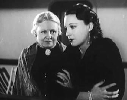 Bodil Rosing (left) and Irene Ware (right), isolated scene from public domain film King Kelly U.S.A. (1934).